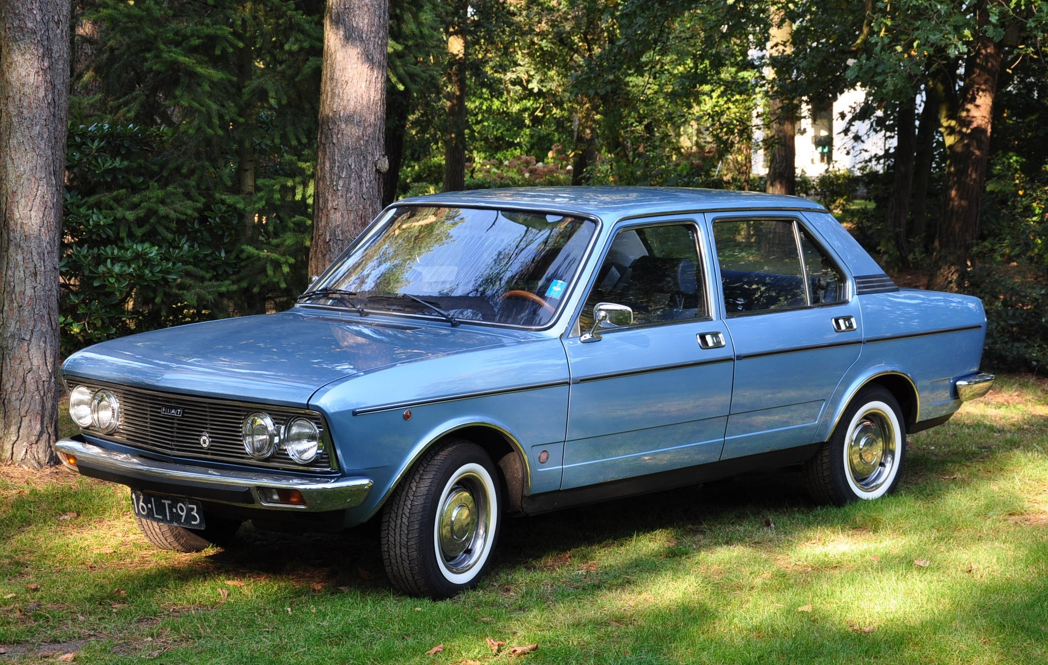 A Fiat 132 GLS 1600, pictured in 2011 in the Netherlands.